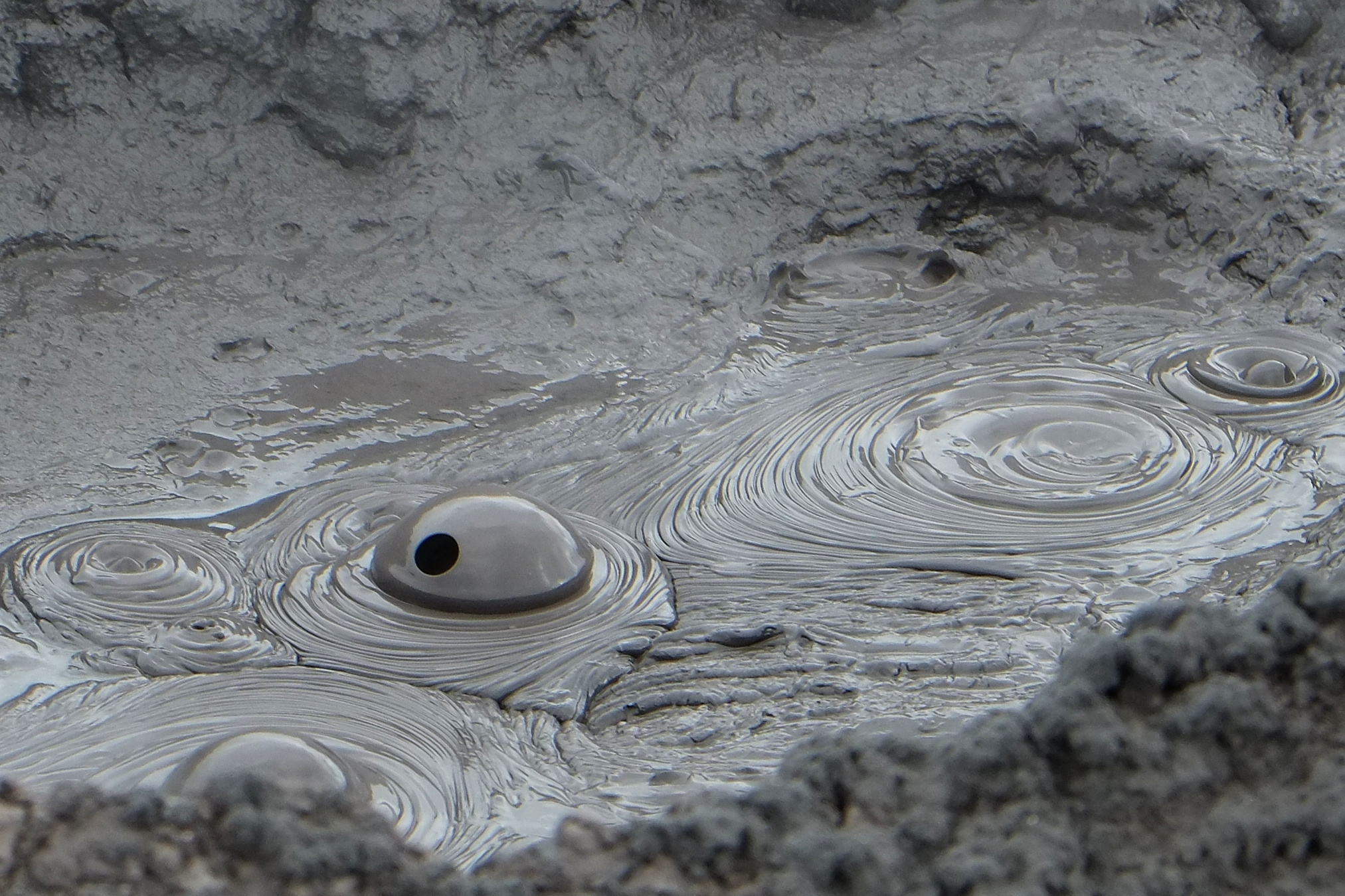 Bubbling mud with bubble starting to burst (in Tikitere / Hell's Gate thermal area)